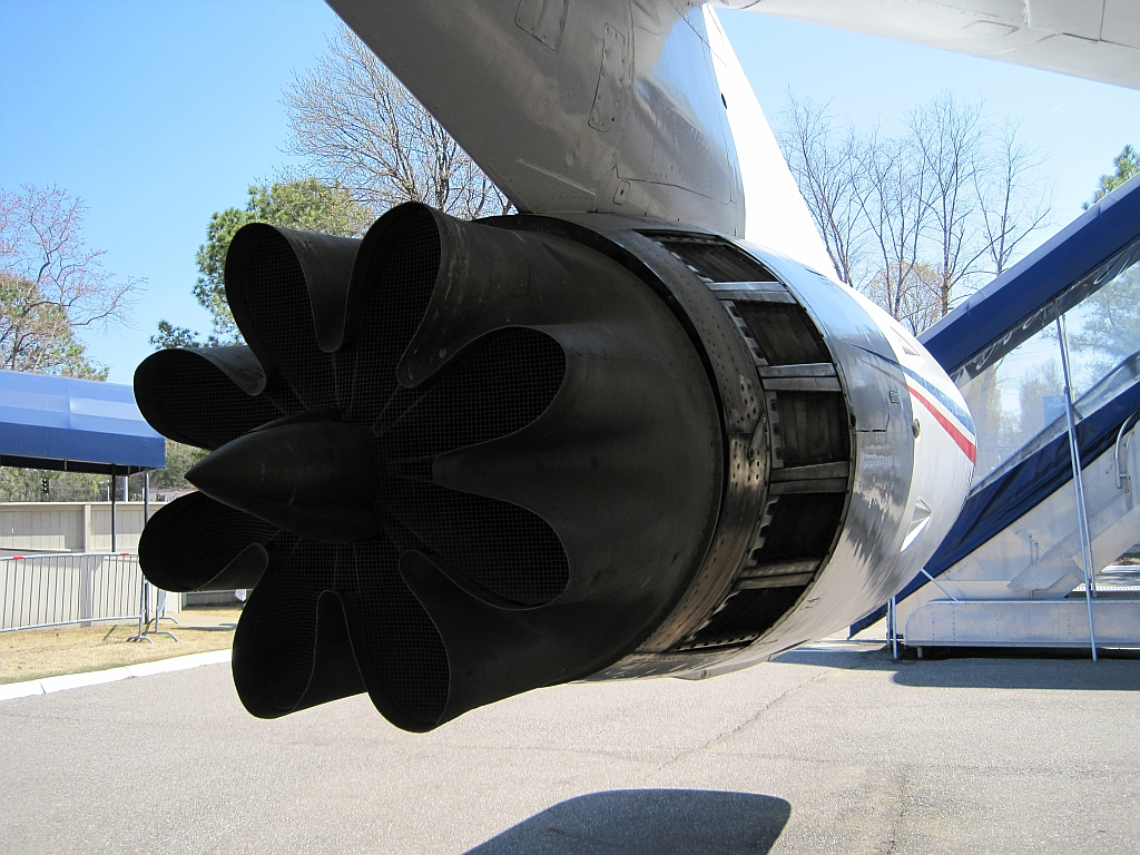 Elvis Presley custom plane Convair 880 "Lisa Marie" at Graceland in Memphis, Tennessee